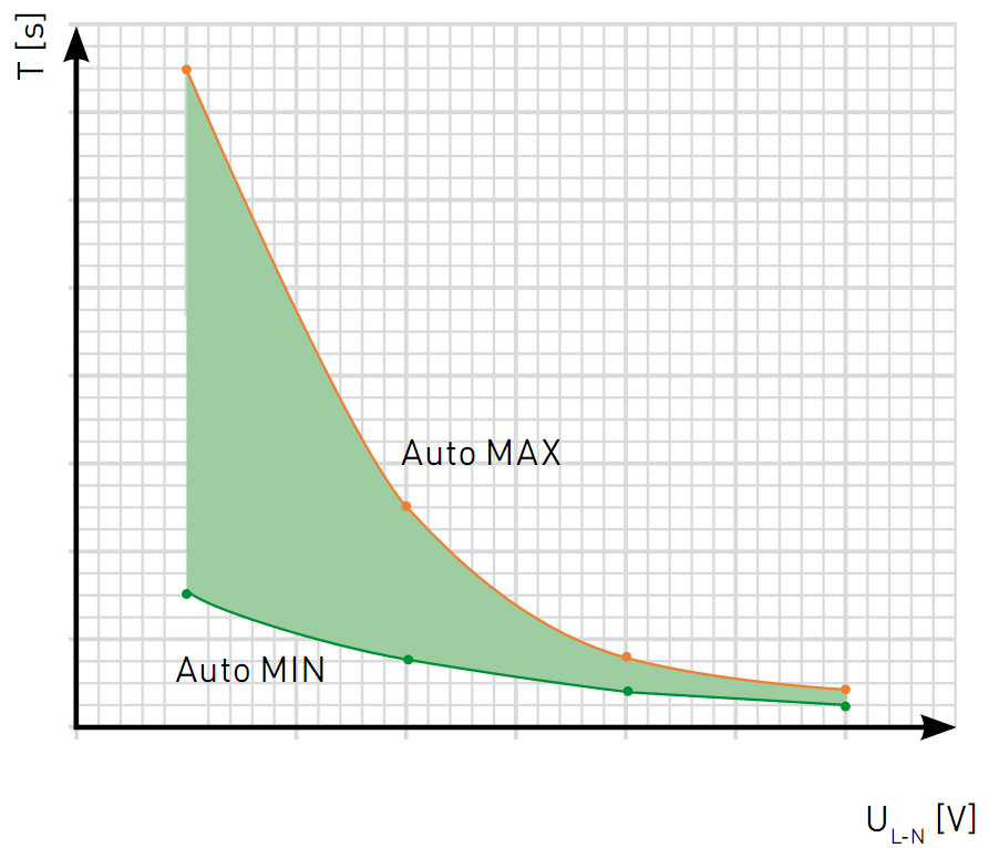 EN50550 graphic